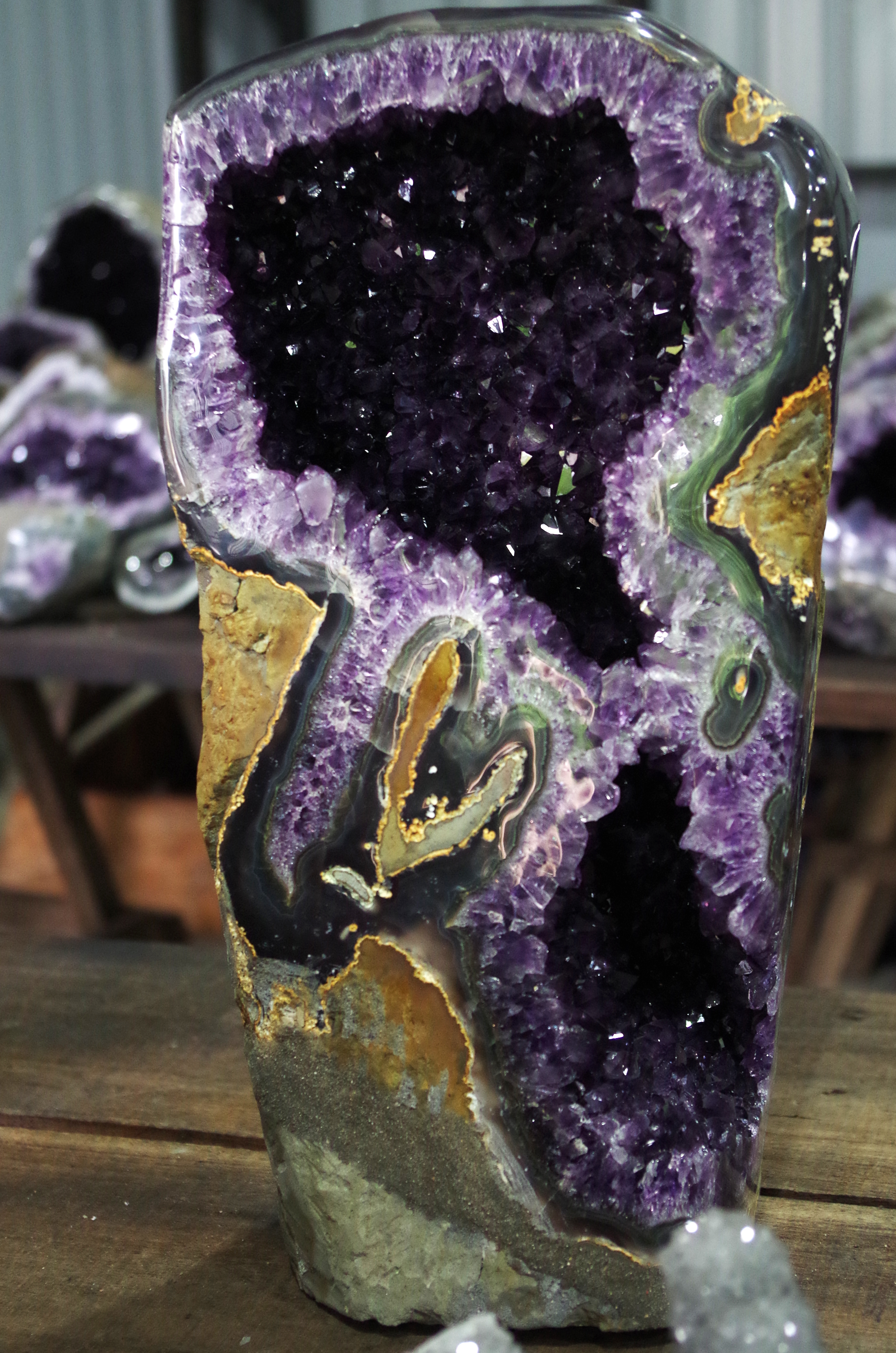 Polished piece of geode with amethyst extracted from Artigas-Uruguay